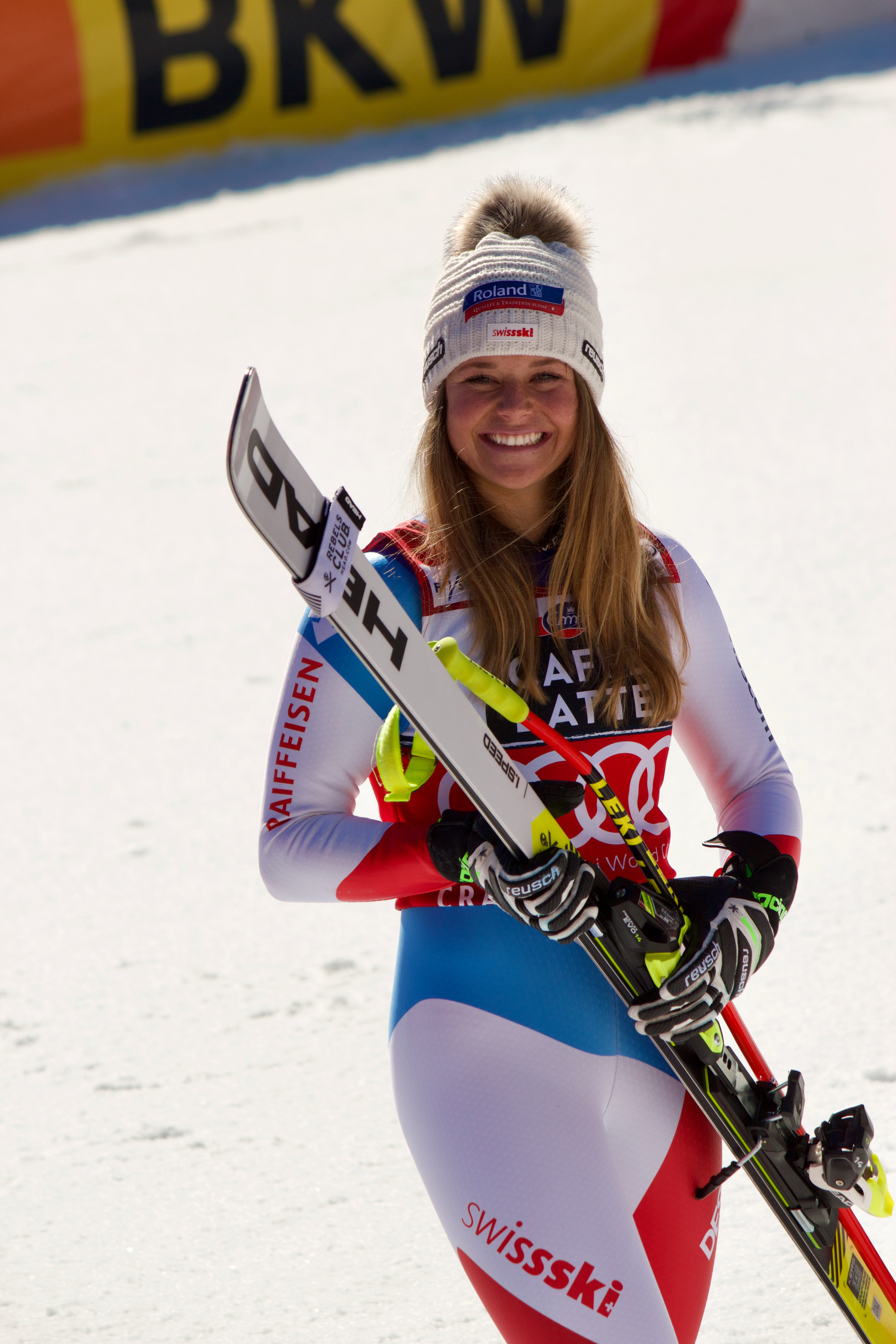 Corinne Suter during the awards ceremony at the end of the Alpine Ski World Cup downhill race on February 22nd 2020 in Crans-Montana, Switzerland